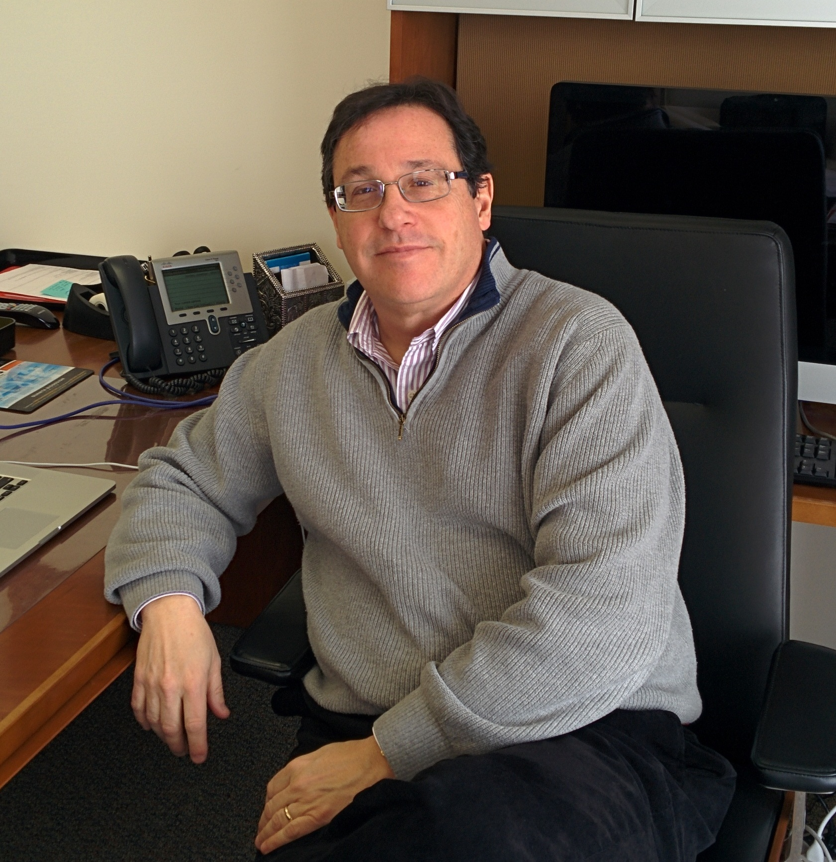 Photo taken with Nexus 5 on March 4th, 2014 in the office of the VPR at RPI. Jon was working hard.